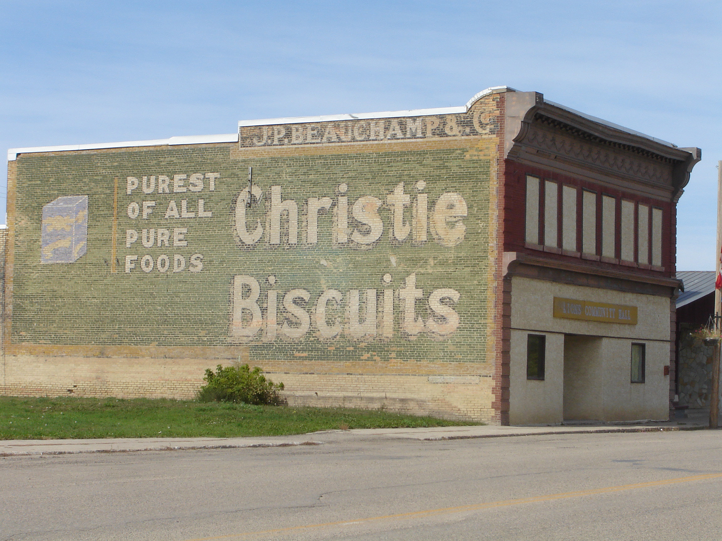 Lions Community Hall Qu'Appelle Saskatchewan